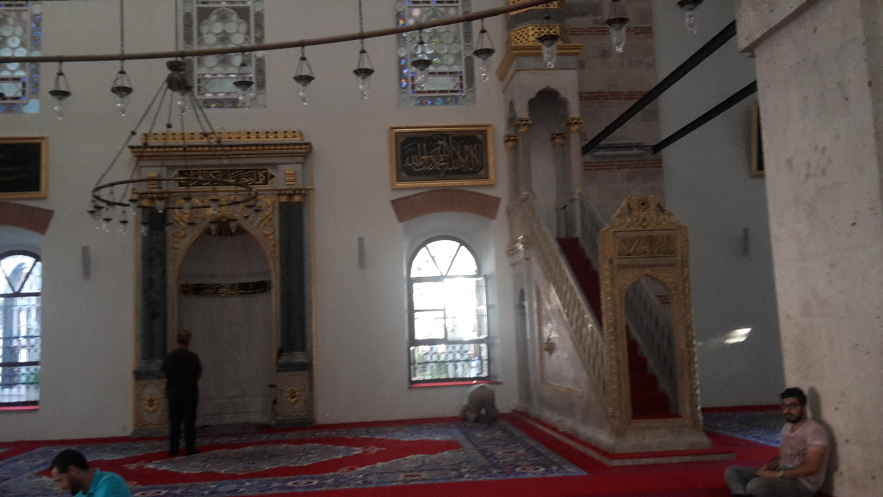 Mihrab and Minbar of the Zagan Pasha Mosque in Balikéssir.